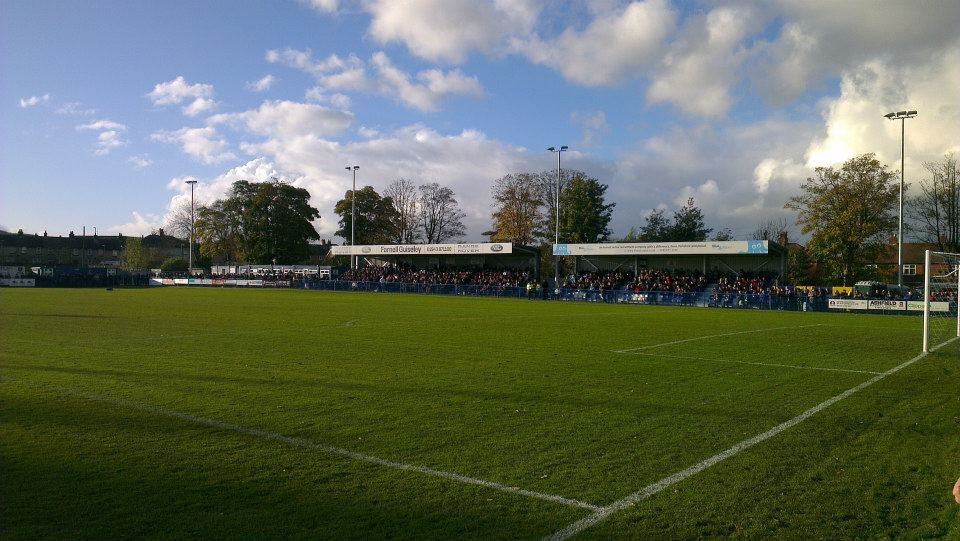 Nethermoor Park, the football ground of Guseley AFC